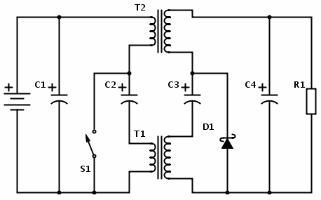 Theoretical zero-ripple output isolated Ćuk converter schematic. The circuit has control stability problems.